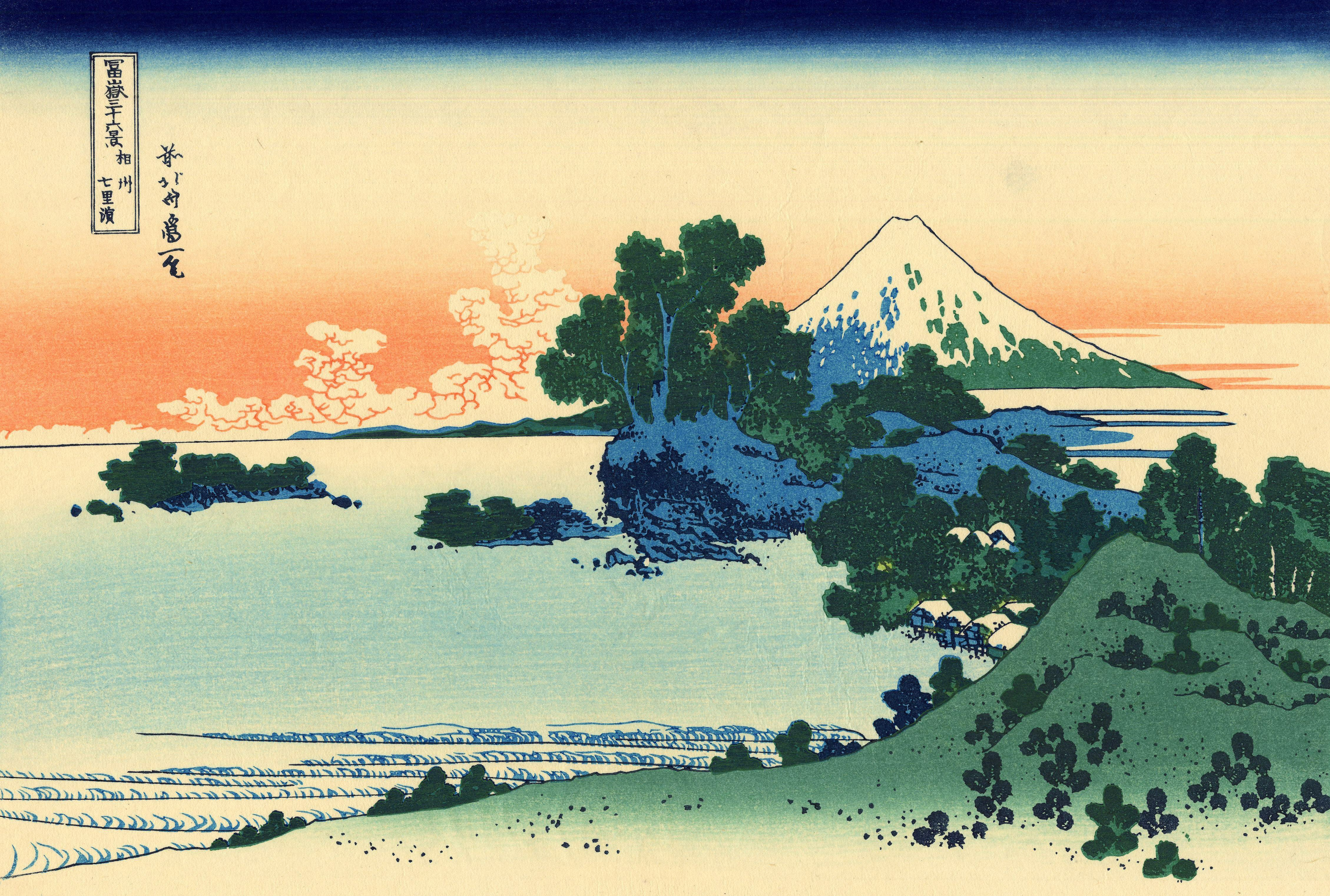 Part of the series Thirty-six Views of Mount Fuji, no. 24.